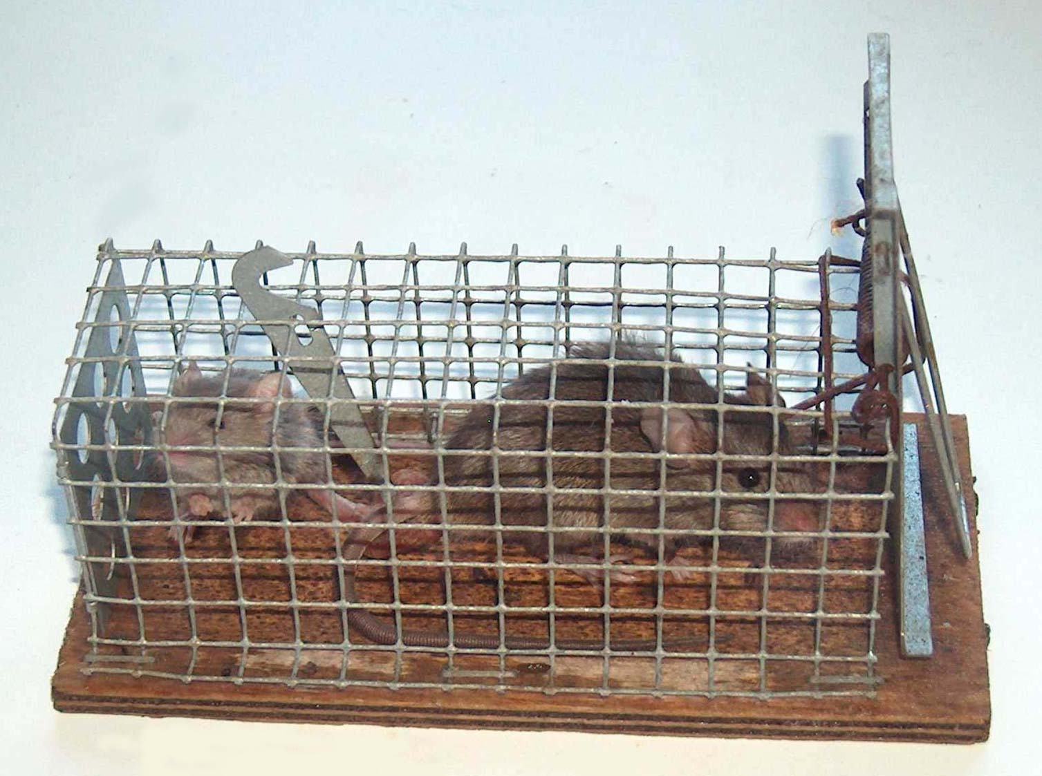 Mouse trap. Wow, two mice are trapped at the same time ! I Used salami.